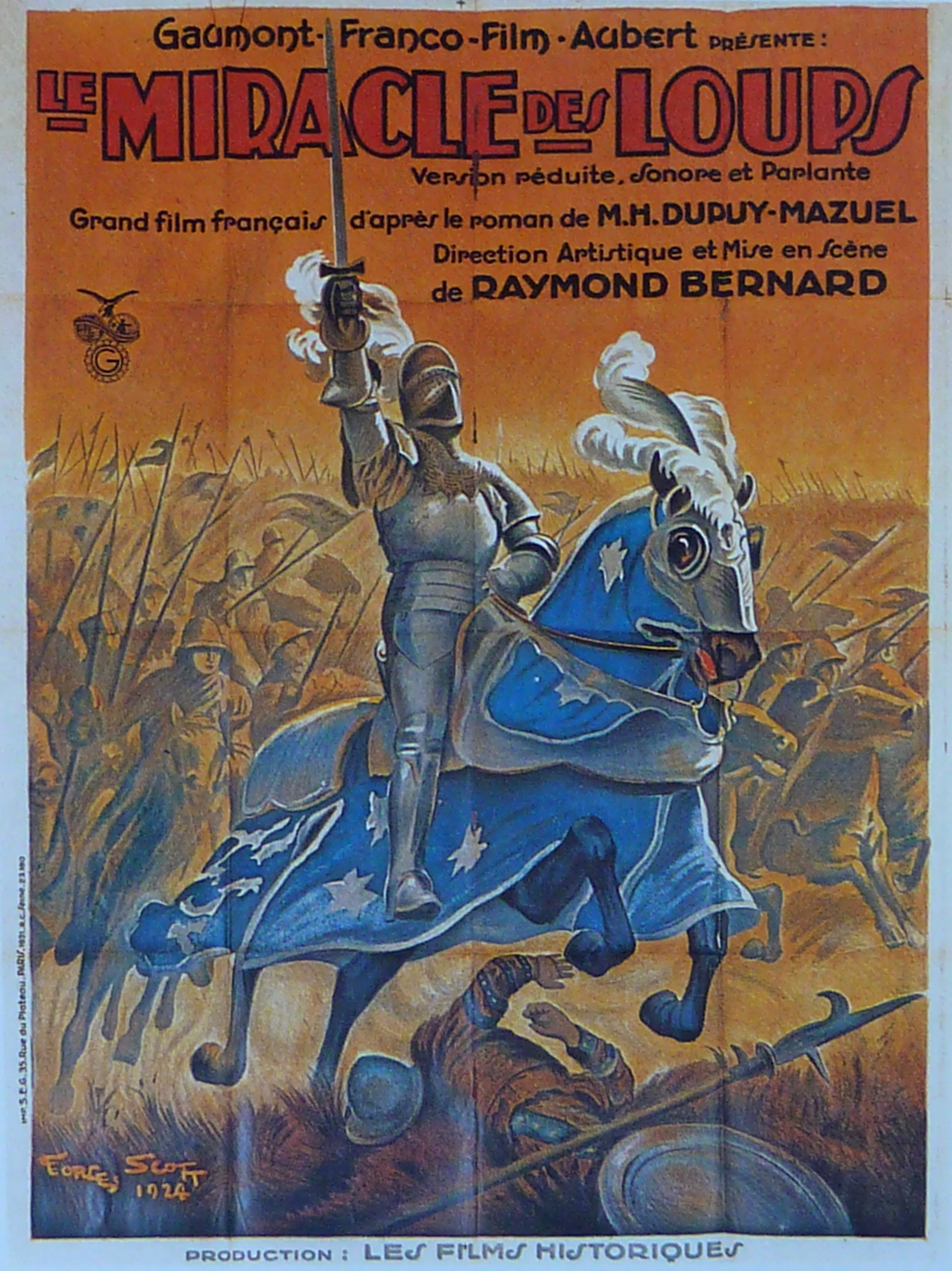 Affiche par Georges Scott Le Miracle des Loups, film de Raymond Bernard 1924. Grand format 120x160 cm. Imprimerie SEG